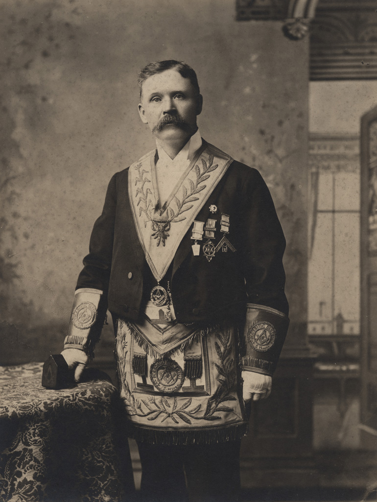 Photographer: Reuben R. Sallows (1855 - 1937) Description: Portrait of middle-aged man, three-quarter length, standing, facing front; wears black jacket and pants, white formal shirt; chain, cuffs and apron of office for Masonic Lodge; dark hair, handlebar moustache; left hand holds gavel resting atop covered table; archway leading to narrow window in background on right; Sallows imprint in lower left corner of matte; writing across bottom identifies subject: Major Joseph Beck Object ID : 0518-rrs-ogohc-ph View additional photographs by Sallows that are held in other collections at the Reuben R. Sallows Digital Library. Order a higher-quality version of this item by contacting the Huron County Museum (fee applies).